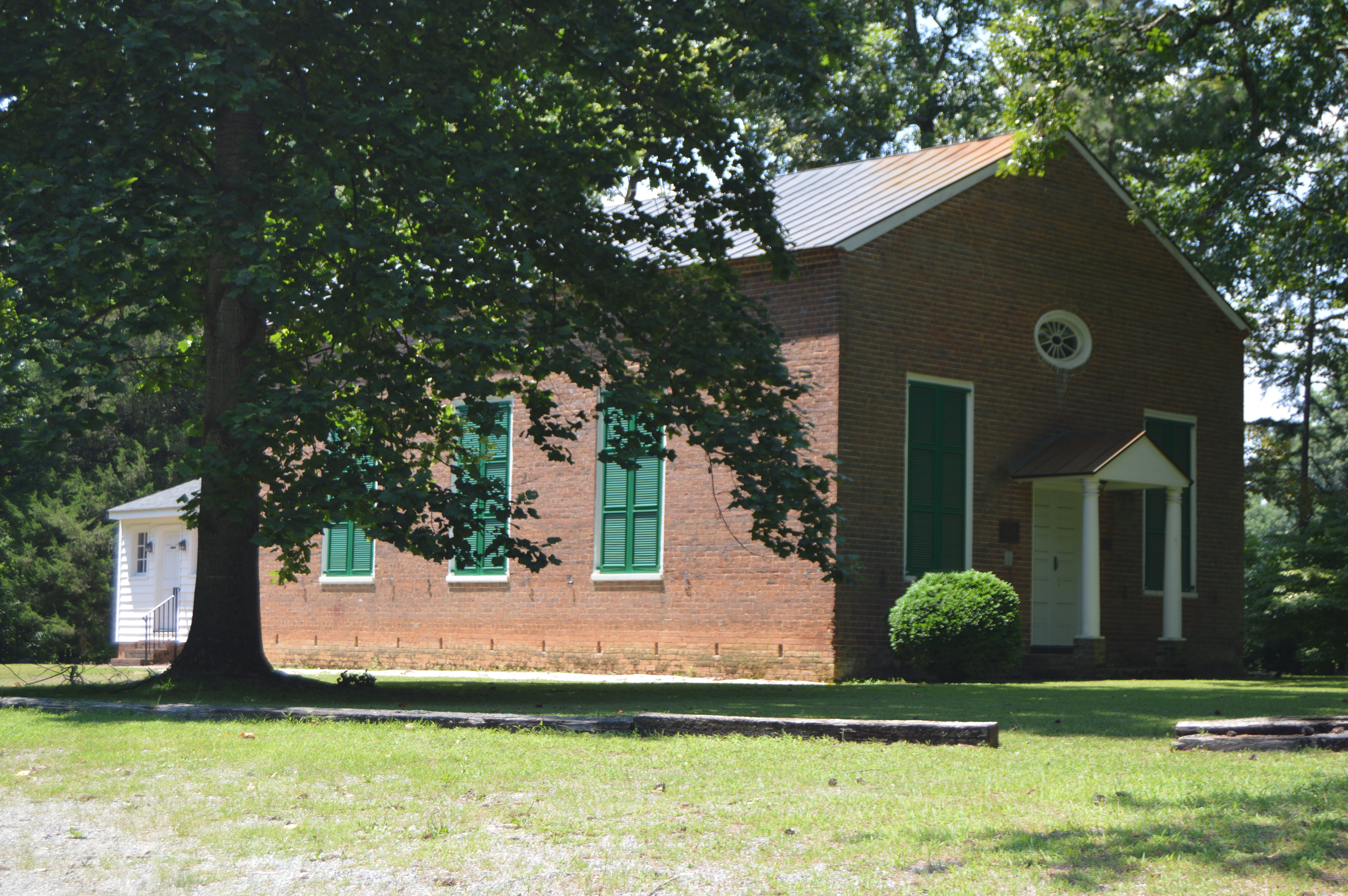 Front and eastern side of Trinity Episcopal Church, located on Goshen Road at Teman Road, south of Beaverdam, in Hanover County, Virginia, United States. Built in 1830, it is listed on the National Register of Historic Places.